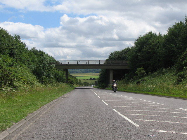 The A350 at Two Mile Down. A view looking down the A350 as it passes under the A303 at Two Mile Down.